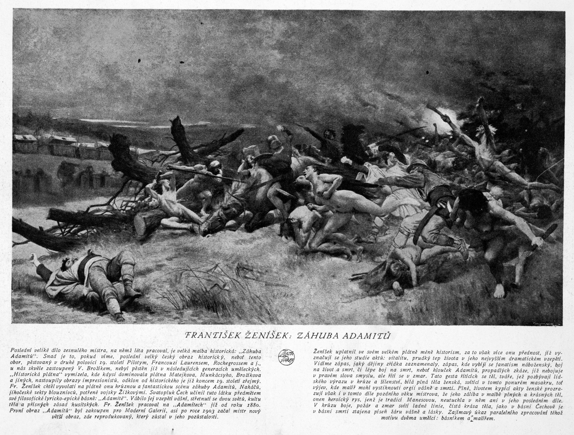 František Ženíšek (1849-1916, Czech painter): Downfall of Adamits